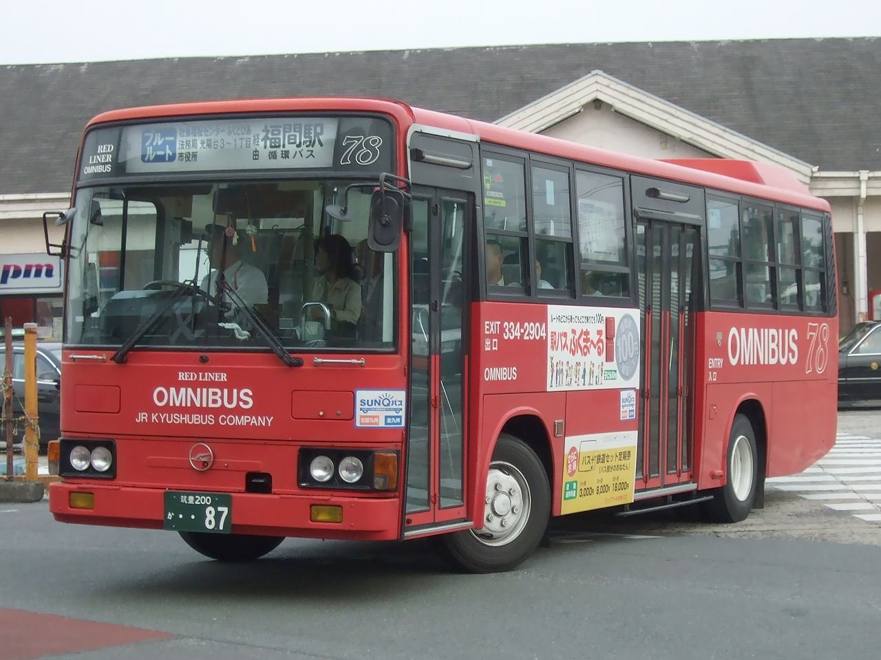 Company:JR Kyushu Bus Use:transit bus Belongs to:Nogata branch (Eki Bus Fukuma-ru) Car license:筑豊200 か・・87 Code:334-2904 Chassis manufacturer:Mitsubishi Motors Coachbuilder:Shin-Kureha Car Manufauturing Location:in Fukutsu City, Fukuoka, Japan.